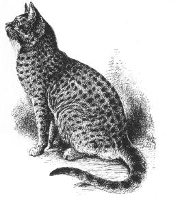 Spotted Cat, Drawing from Harrison Weir 1889